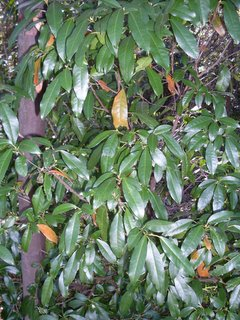 Croton verreauxii at Brush Farm, Eastwood